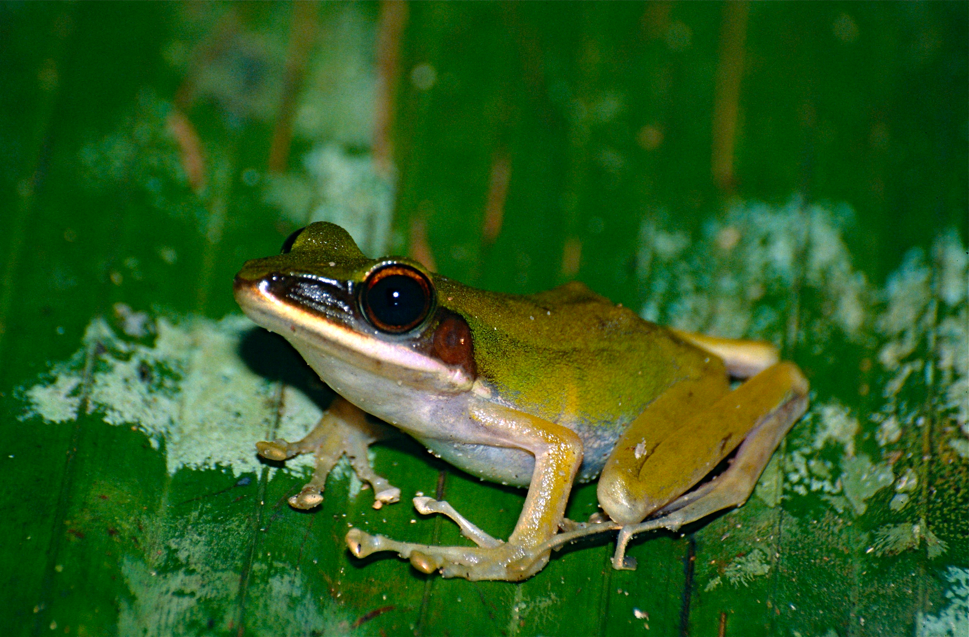 Lambir Hills NP, Sarawak, MALAYSIA Scanned slide from 2001